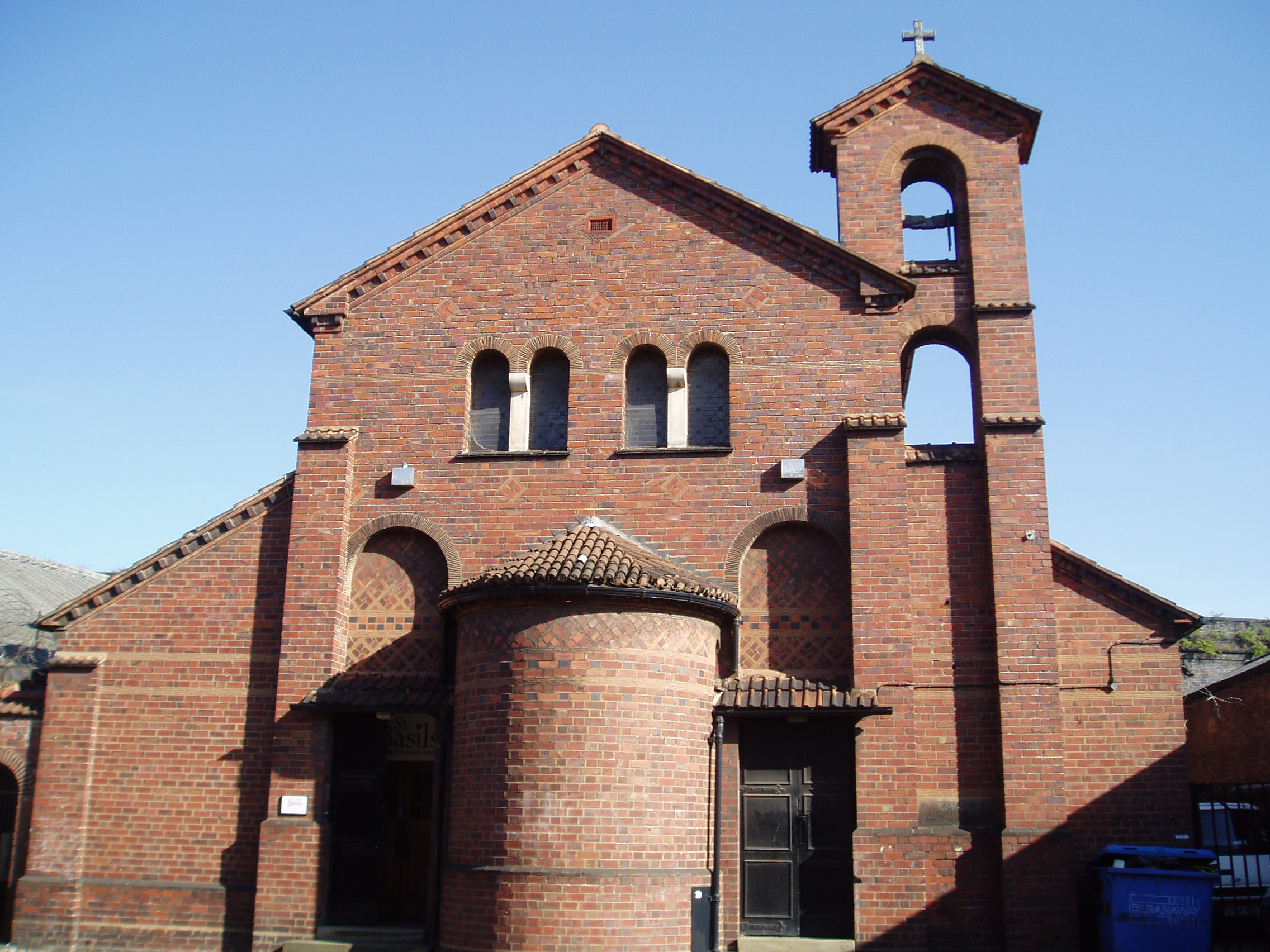 Former parish church of St Basil, Heath Mill Lane, Digbeth, Birmingham, seen from the northwest